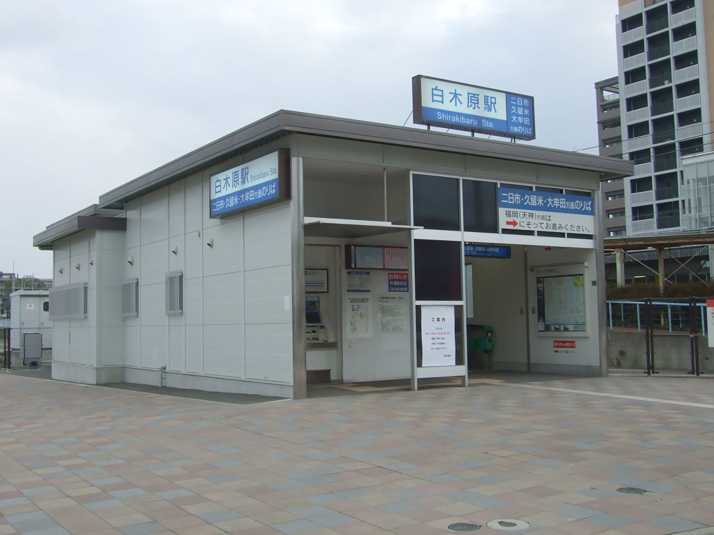 Nishitetsu Shirakibaru Station(eastside entrance), Nishitetsu Tenjin Omuta Line.